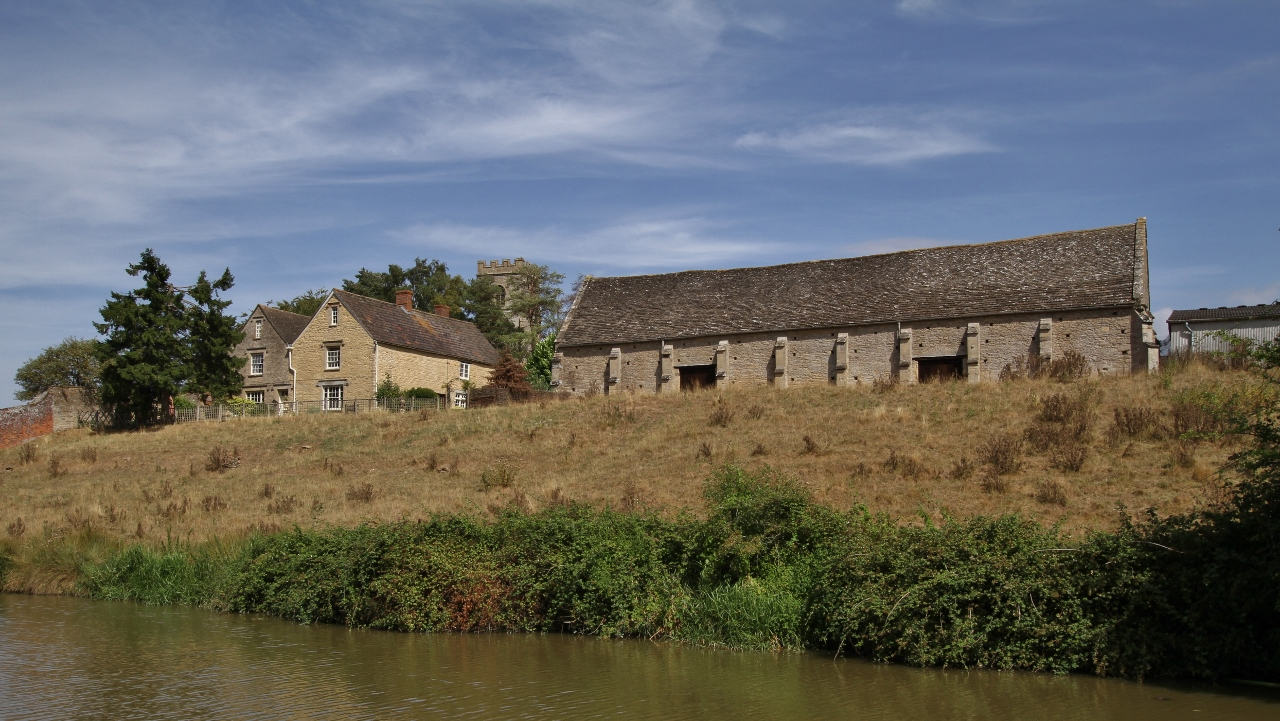 Manor Farm, Upper Heyford, Oxfordshire, seen from west-southwest. On the left is the farmhouse. Centre and right is New College Barn. The Oxford Canal is in the foreground.